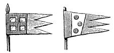 Two flags from the Bayeux tapestry, demonstrating the use of heraldry at this time.